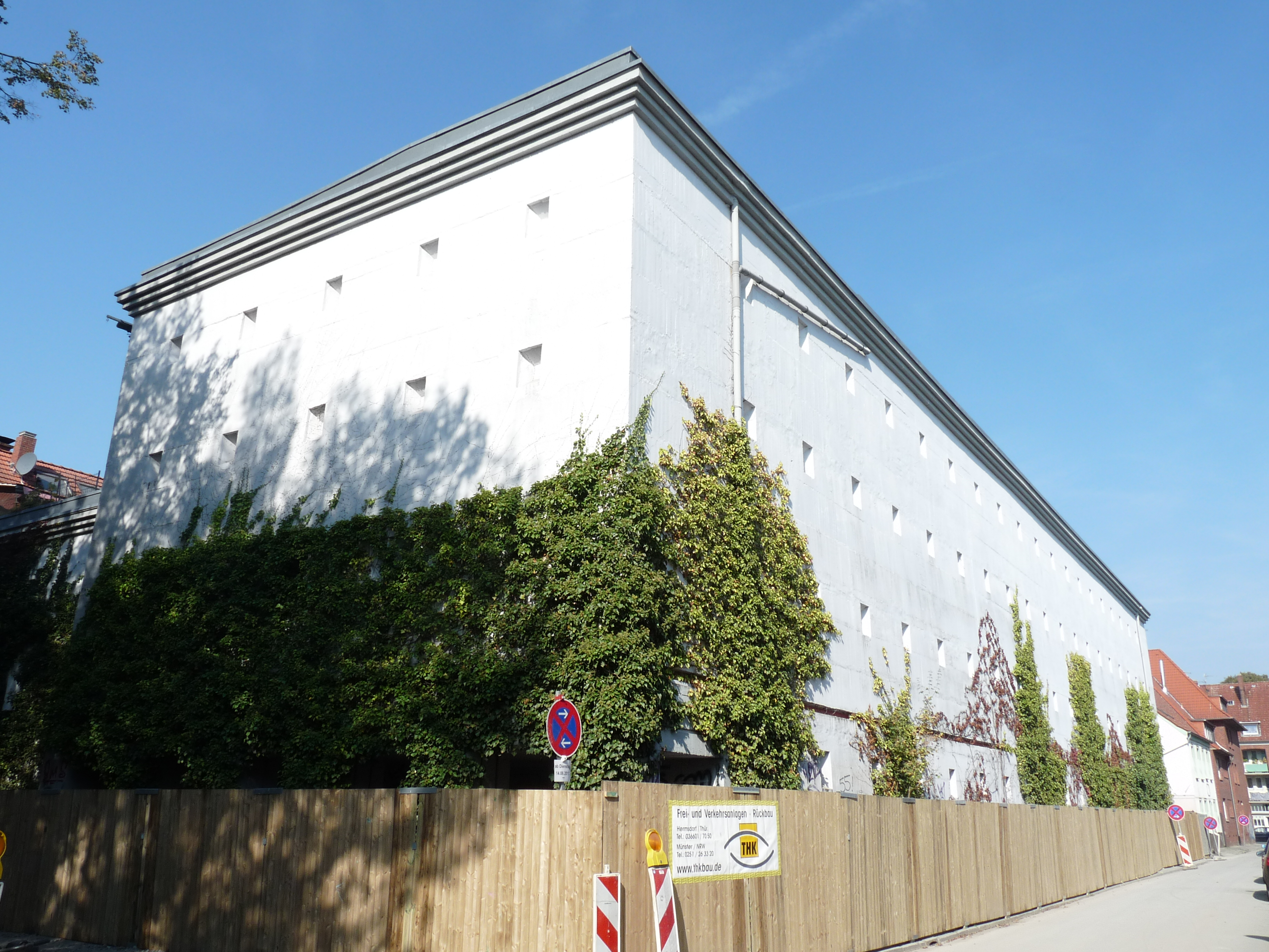 Hochbunker Ottostraße Münster: air raid shelter - view from south